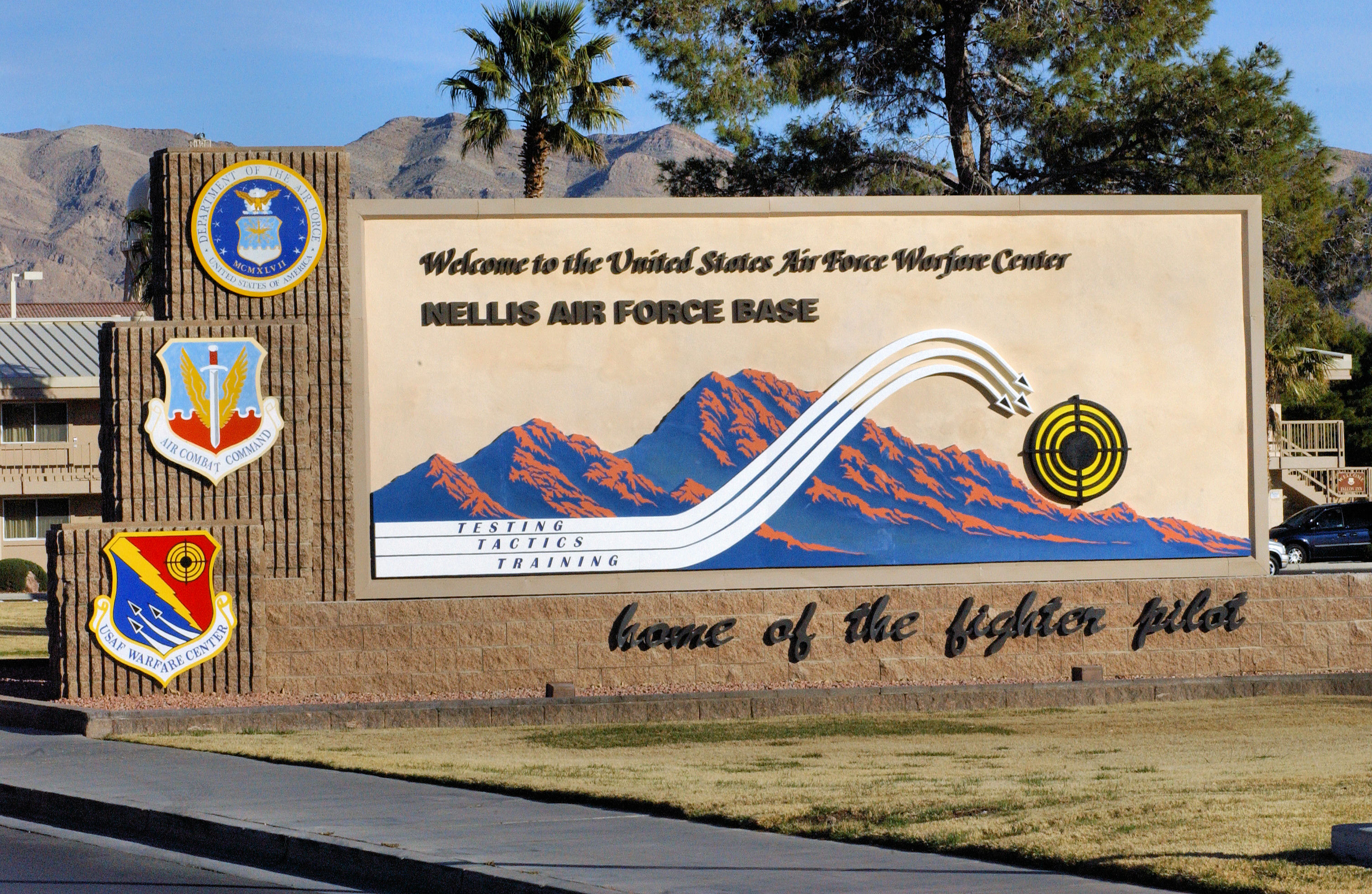 Welcome To Nellis AFB Sign